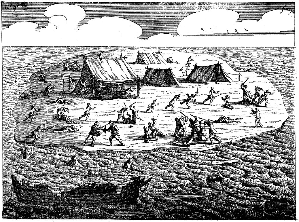 This is an image of Plate 3 from the 1647 Dutch book Ongeluckige voyagie, van't schip Batavia ("Unlucky voyage of the ship Batavia"). In the original work this plate followed Page 17.